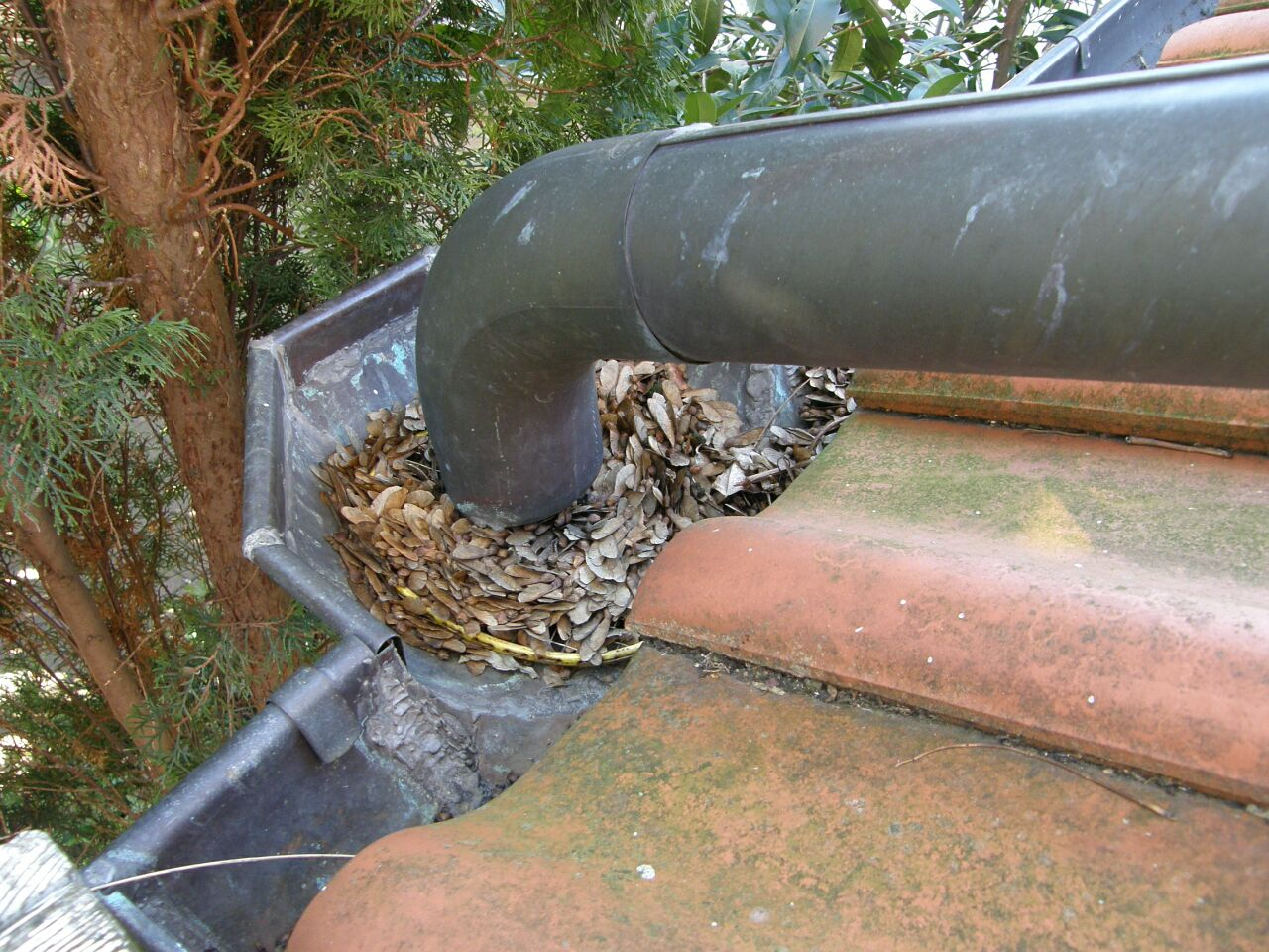 Rainwater sieves